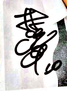 This is Lam Hiu Fung's signature.